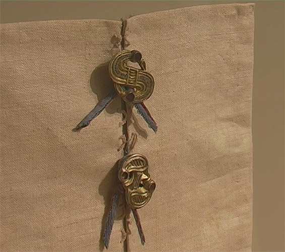 a bavarian shirt fibula (brooch) from the 6th century, an archeologic find from Waging am See in Bavaria